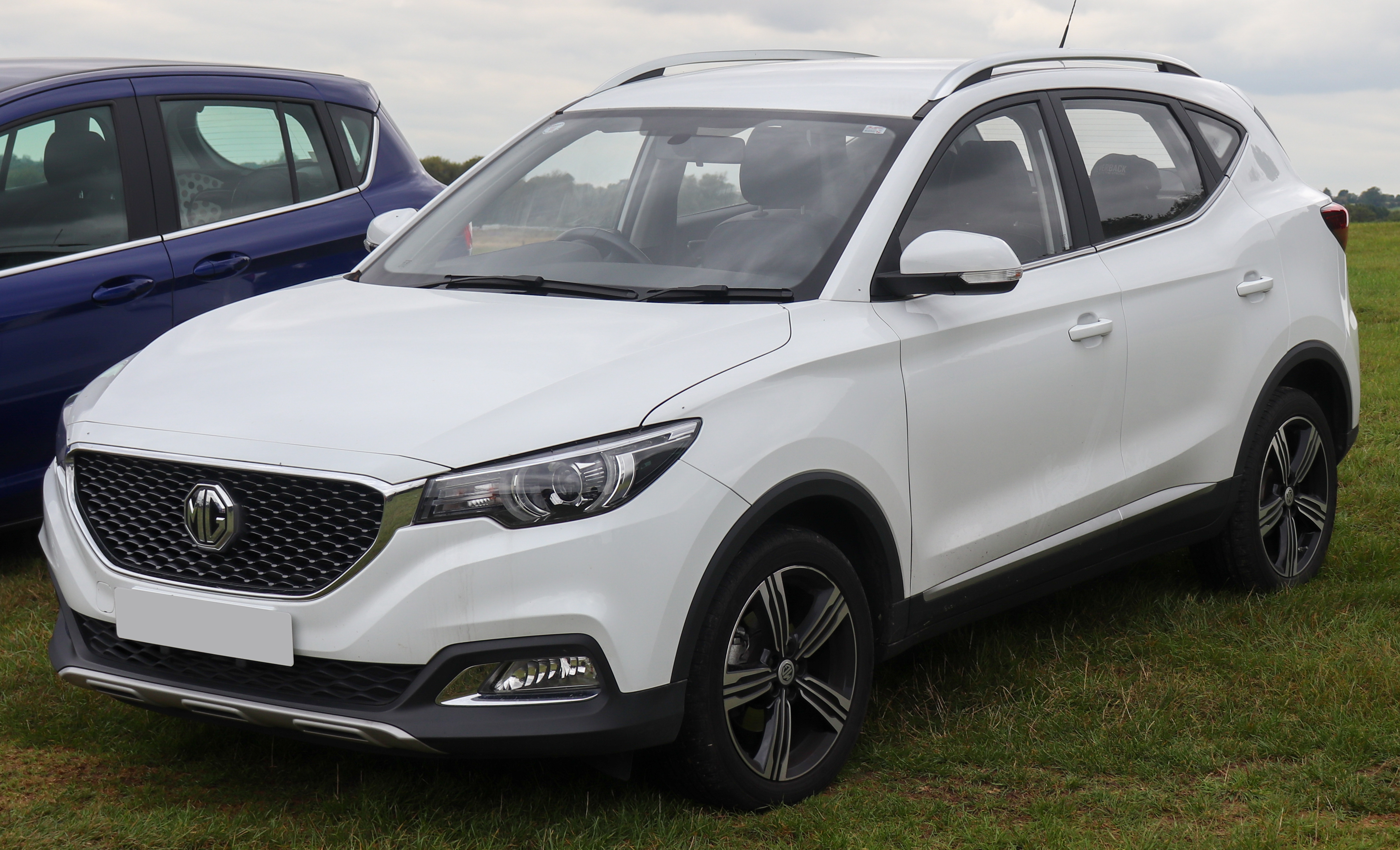 2018 MG ZS Exclusive Turbo Automatic 1.0 Front Taken in Warwick